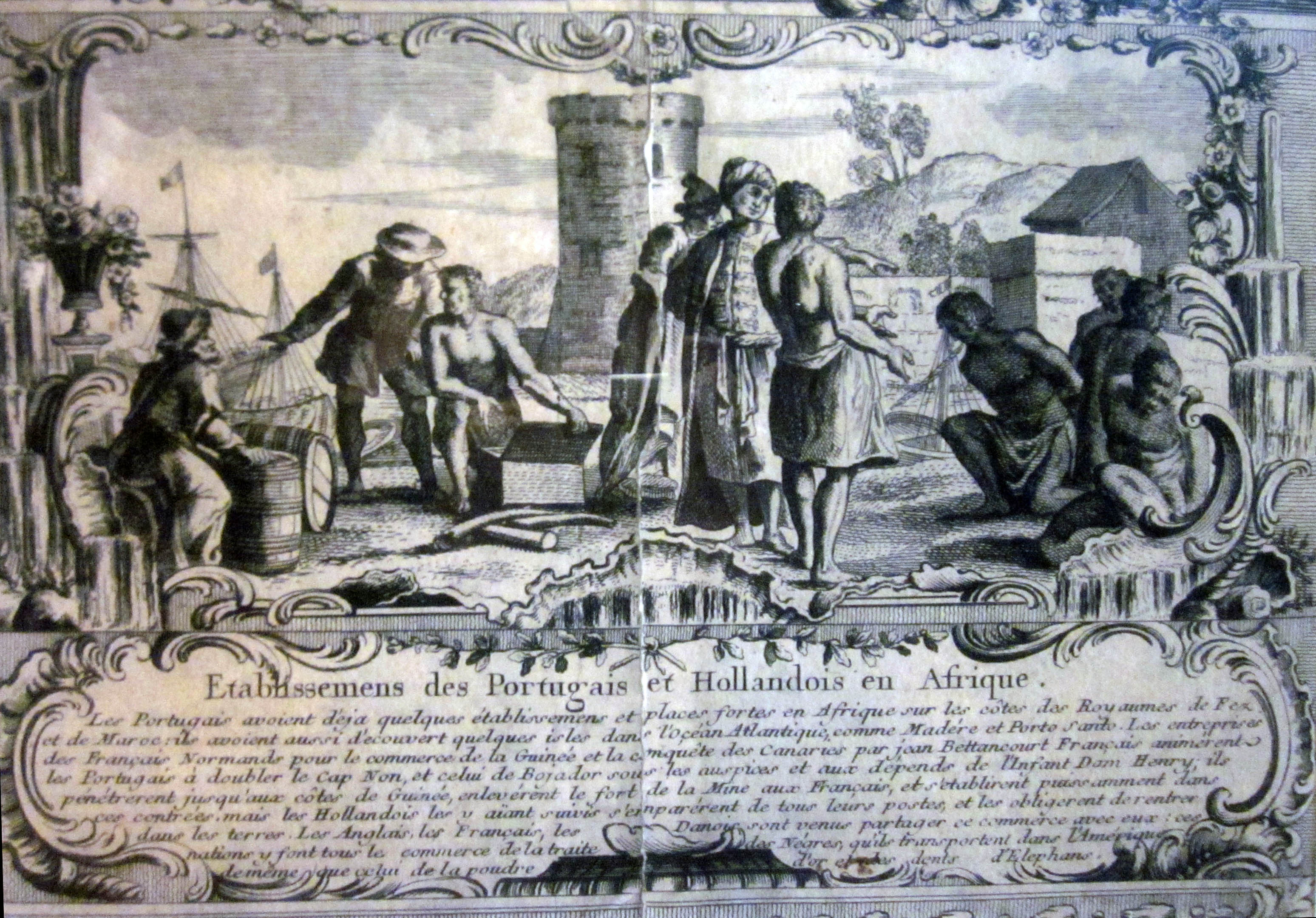 Engraving of "Portugese and Dutch Establishments in Africa", 17th century In Royal Museum for Central Africa, Terveuren.